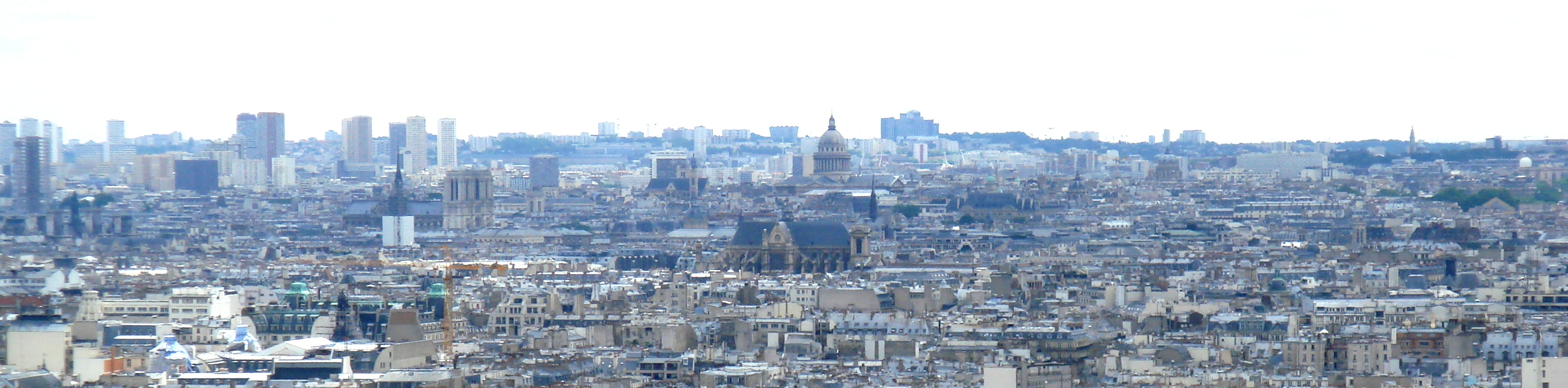 Paris skyline, from Montmartre, looking South.